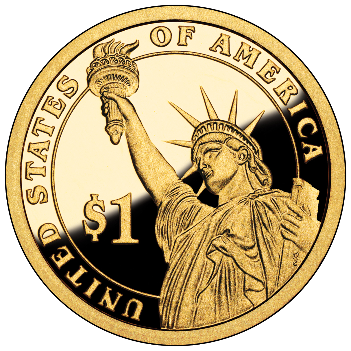 United States Presidential $1 Coin Program Reverse 2013